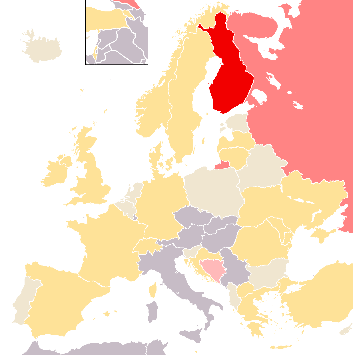 Map of Eurovision 2006